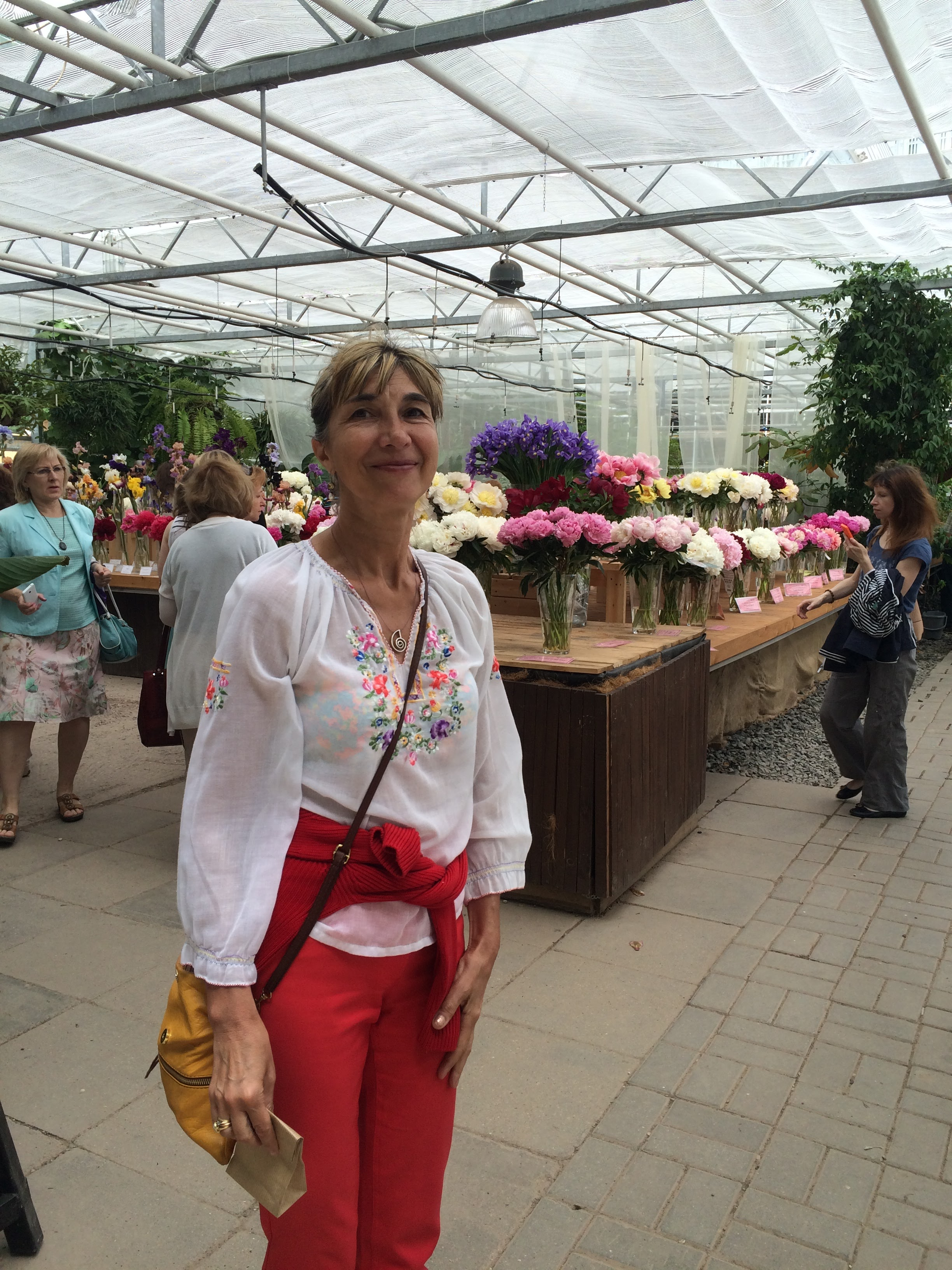 in Moscow 2016